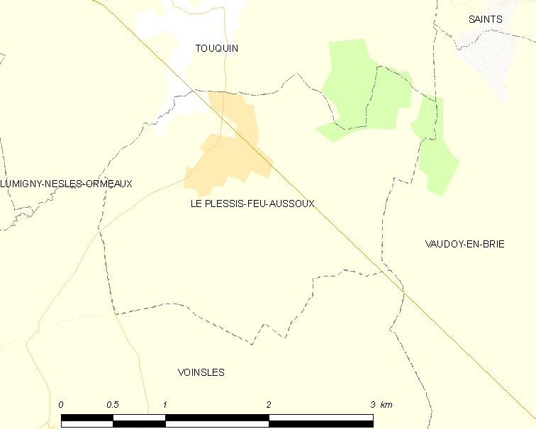 Map of French municipality Le Plessis-Feu-Aussoux